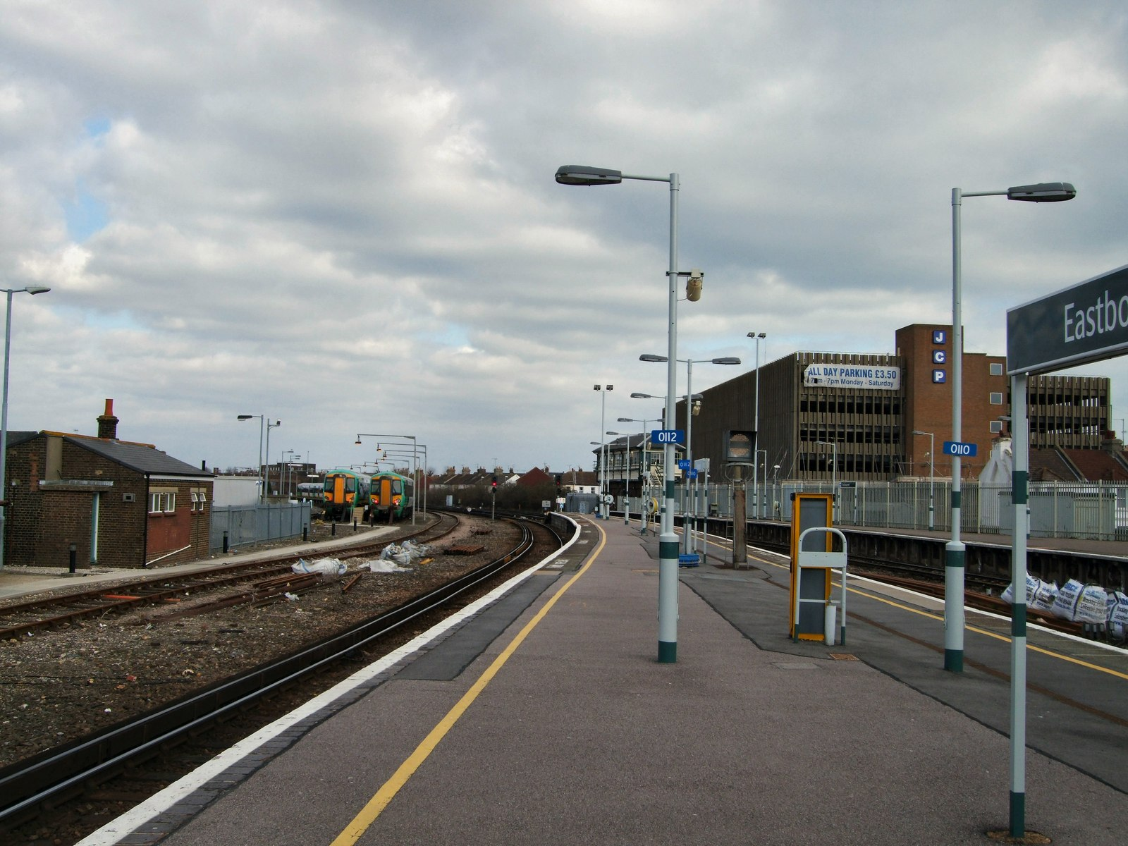 View from Eastbourne Station Looking North East The first station building on this site was opened on 14 May 1849 As the town became an ever more popular seaside resort two further stations followed the first in 1866 and the present station, designed by F.D. Bannister, in 1886.